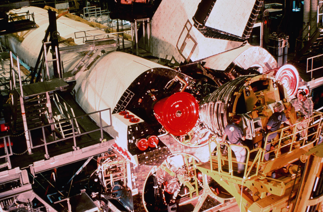 A Space Shuttle's number 1 main engine undergoing installation in an Orbiter Processing Facility at Kennedy Space Centre.